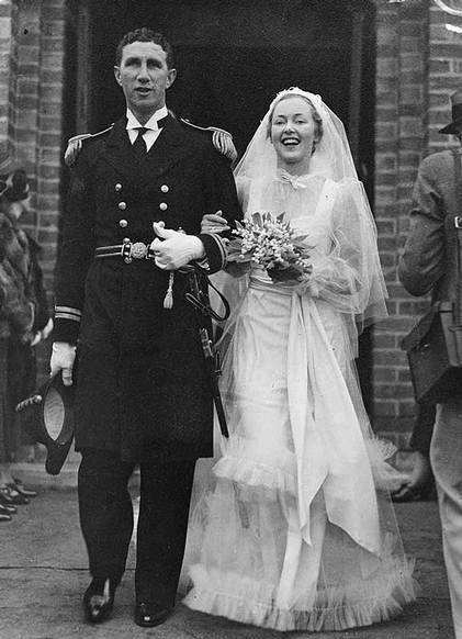 Wedding portrait of Lieutenant (later Vice Admiral Sir) Alan McNicoll to Ruth Timmins at St Stephen's Church of England at Brighton, Victoria on 18 May 1937.